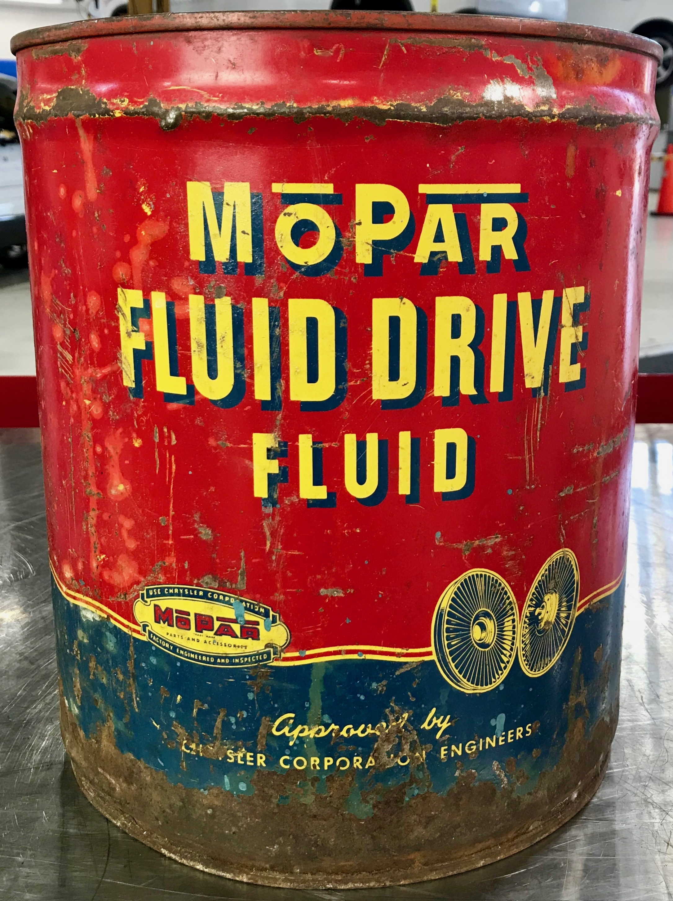 1939-1951 Mopar Fluid Drive Fluid